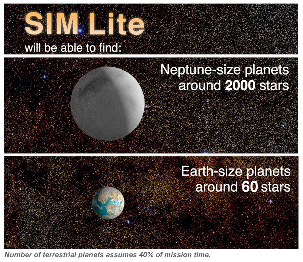 Illustration of the planets the SIM Lite mission will be able to find.